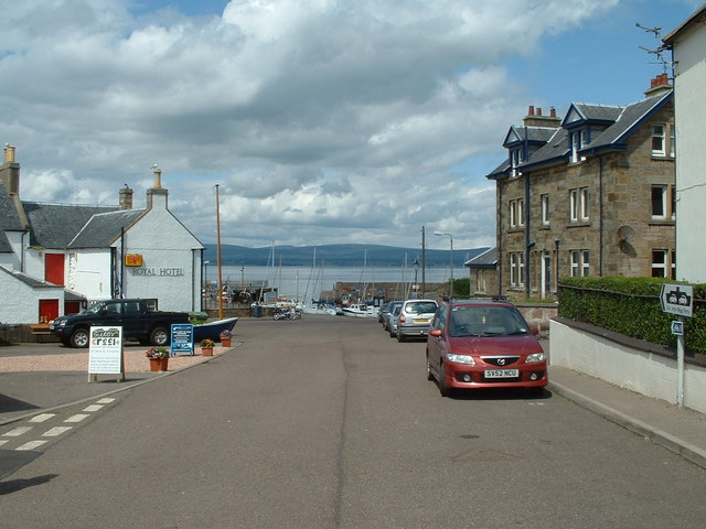 Cromarty town and Harbour Streetscene looking north to the harbour. Sutor (on the sandwich board) is one of the mythical giants who guard the entrance to the Cromarty Firth